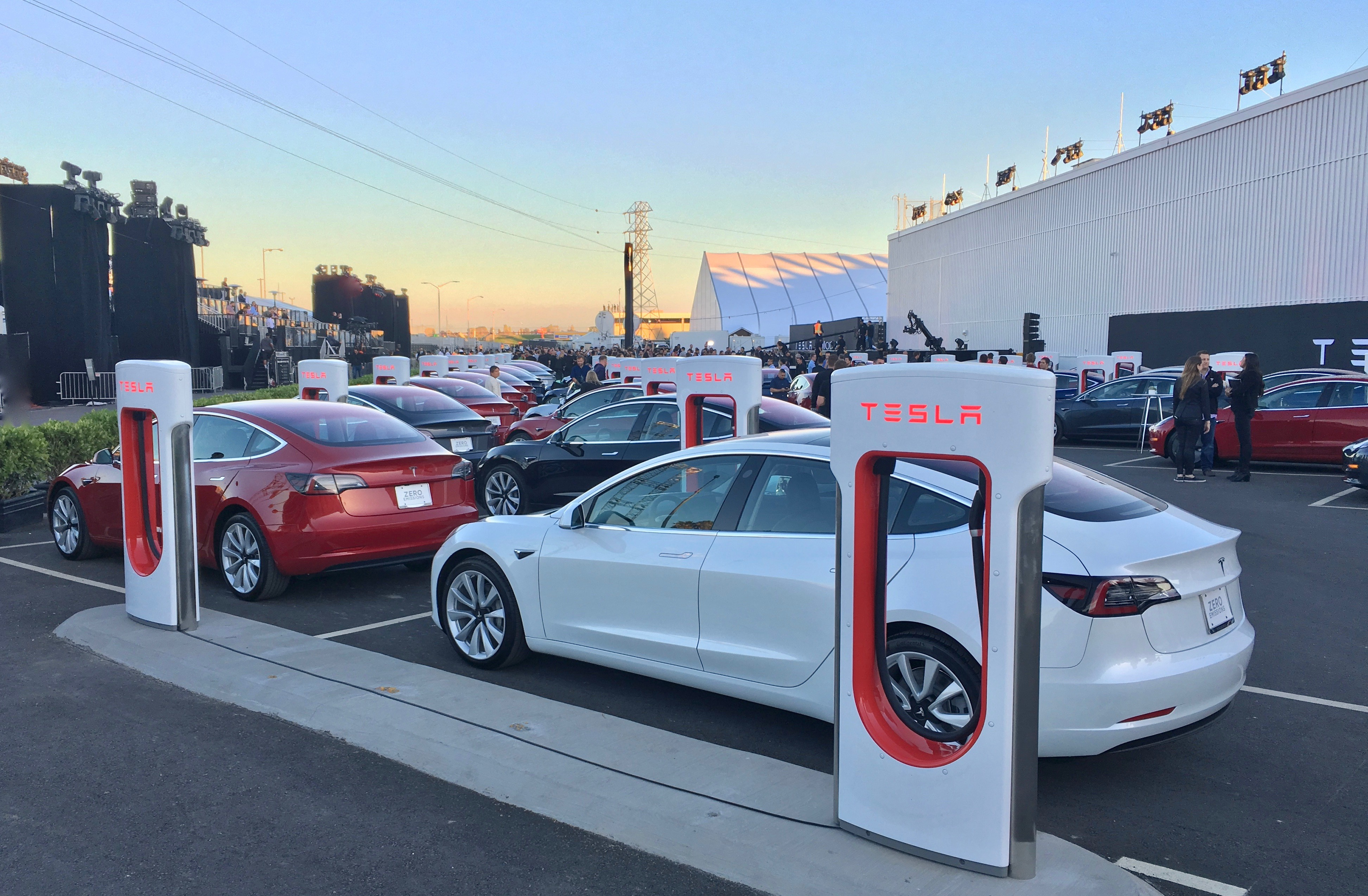 First production models of the Tesla Model 3 ready for delivery.